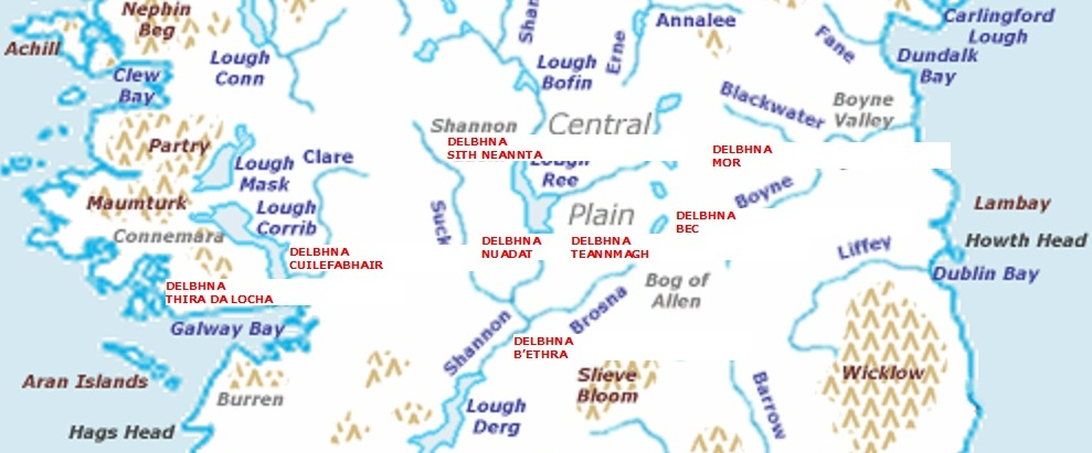 Location of the various branches of the Delbhna created from a copy of a map obtained from Wikimedia Commons: .